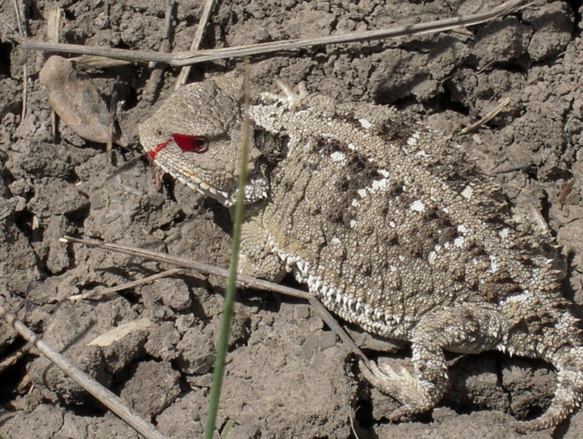 Short-horned lizard in the Charles M. Russell National Wildlife Refuge in Montana in the United States. Some species of short-horned lizards squirt blood from their eyes when they feel threatened. These lizards are common in eastern Montana.